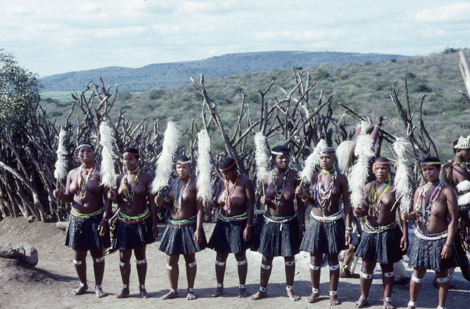 Zulu village, South Africa.